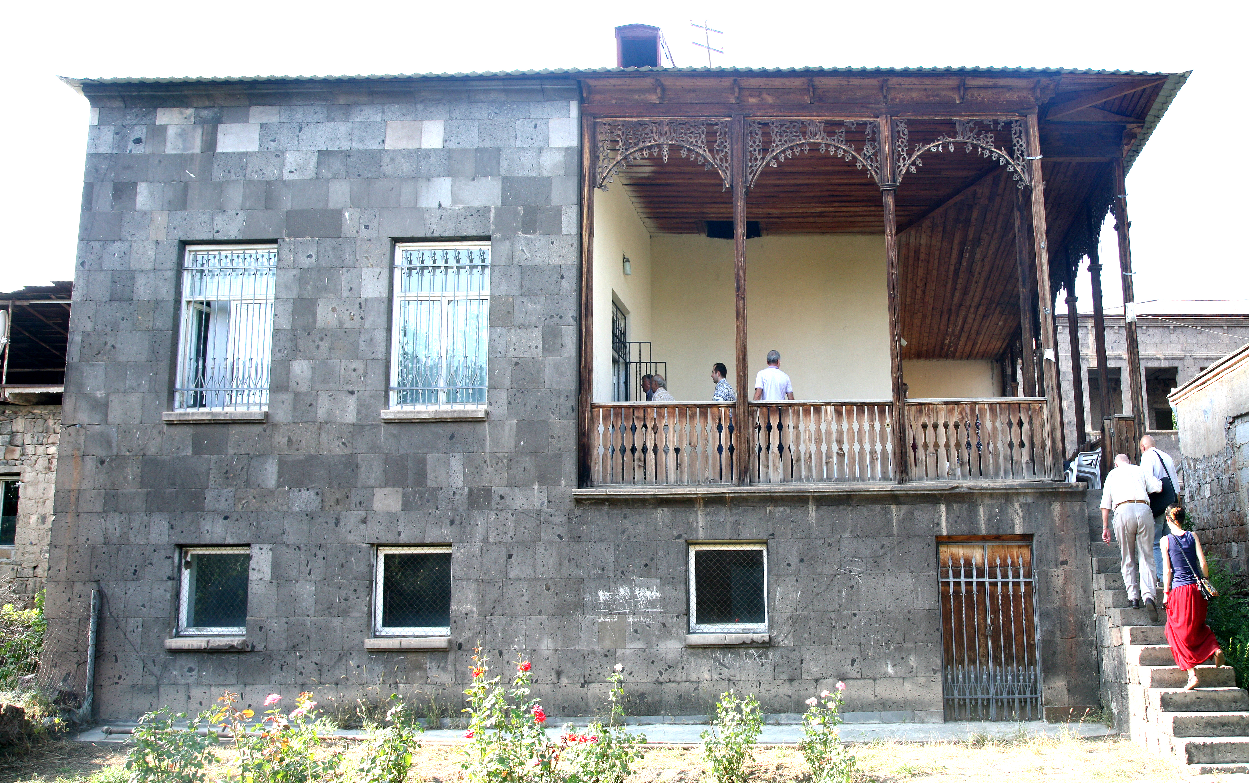 Home-Museum of Norair Sisakian in Ashtarak, Armenia